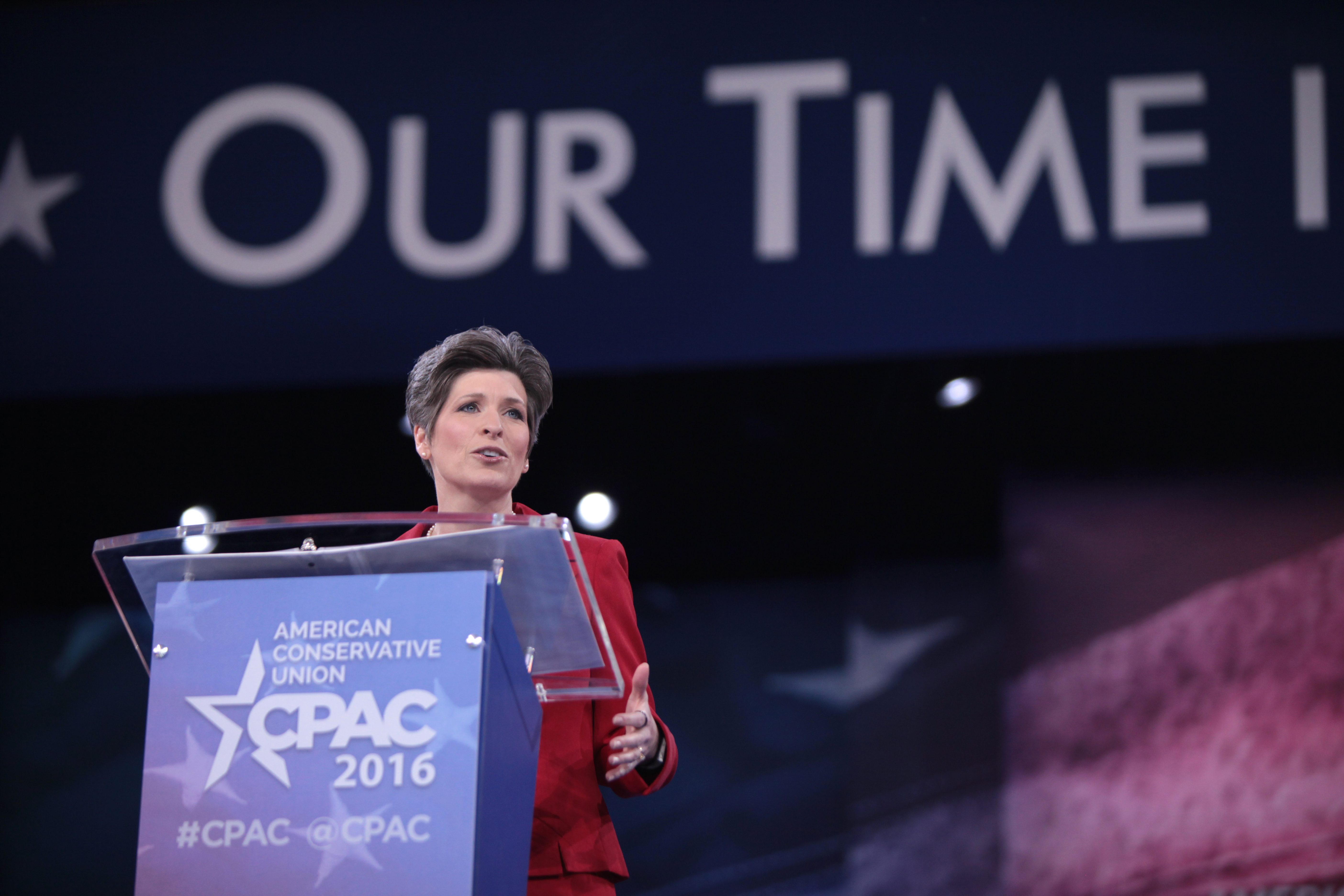 Joni Ernst speaking at CPAC 2016 in Washington, D.C.